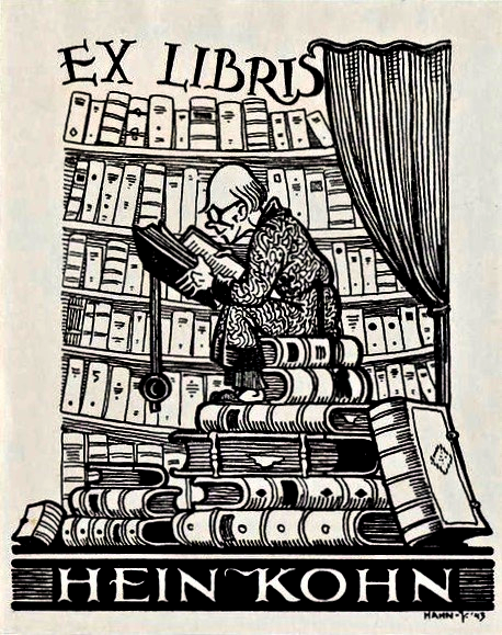 Ex libris Hein Kohn, Hilversum, The Netherlands